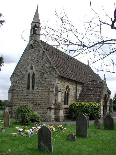 QUEMERFORD, Calne, Wiltshire. The Victorian church of Holy Trinity